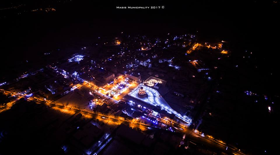 Masis sity